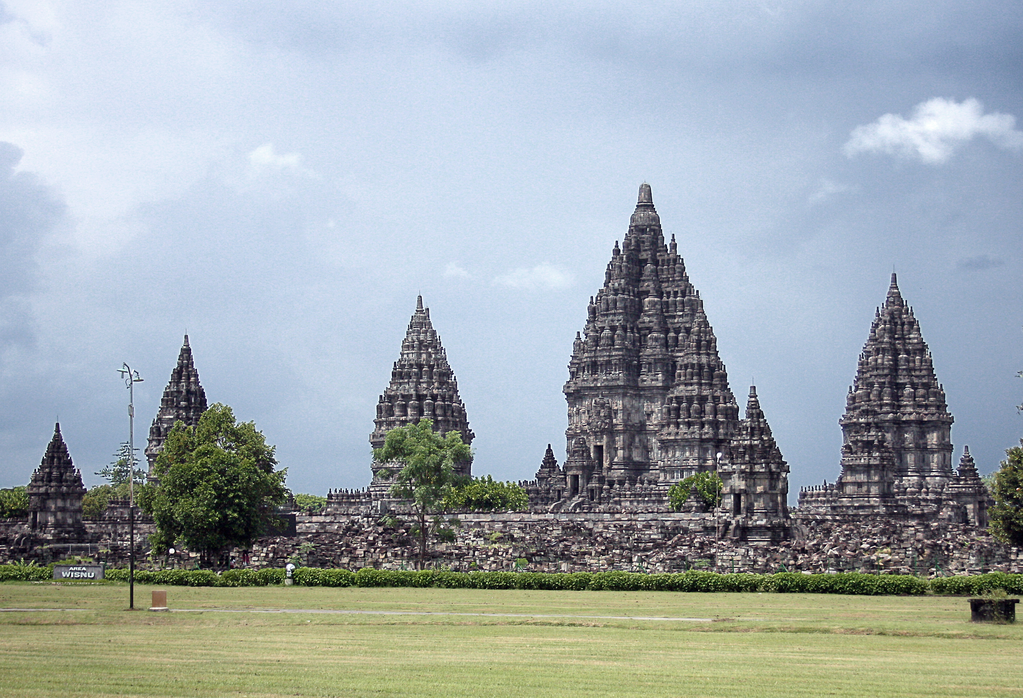 The 9th century Hindu Trimurti Prambanan temple, located on the border between Yogyakarta and Central Java province. The three largest temple is dedicated to Shiva in the centre, Brahma on the left, and Vishnu on the right. On the front of each temples are the temples of vahanas (vehicle of gods). There is originally hundreds of prevara temples.